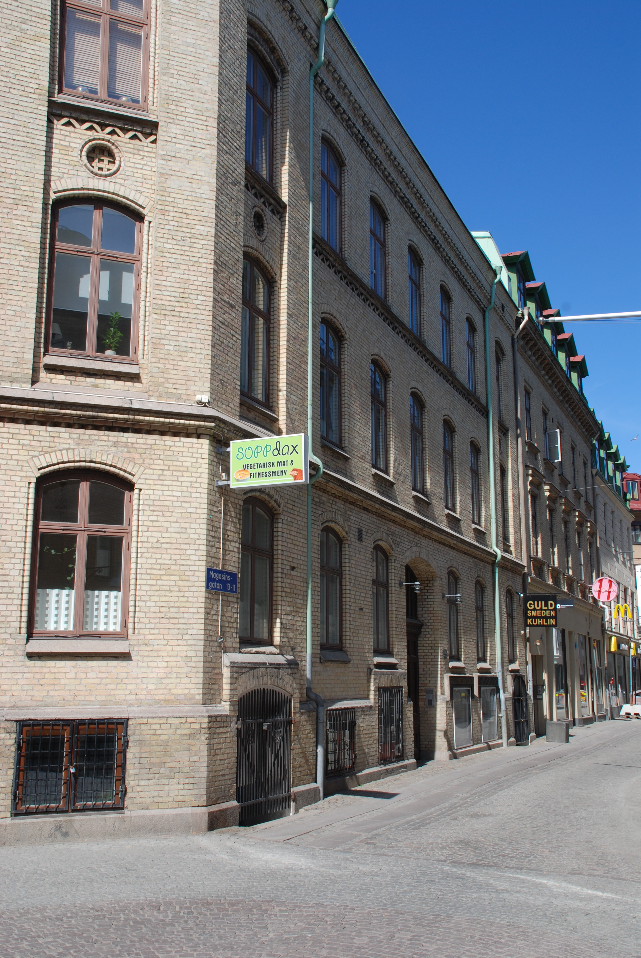 Magasinsgatan 13-11 in Göteborg.